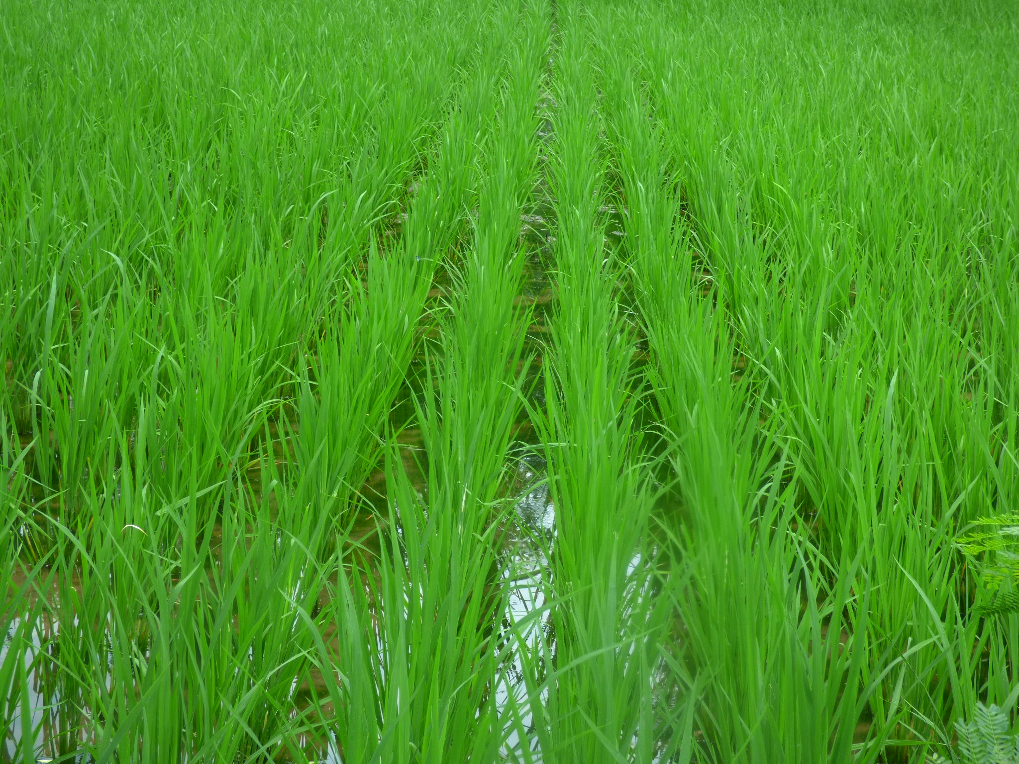 In Bihar, India